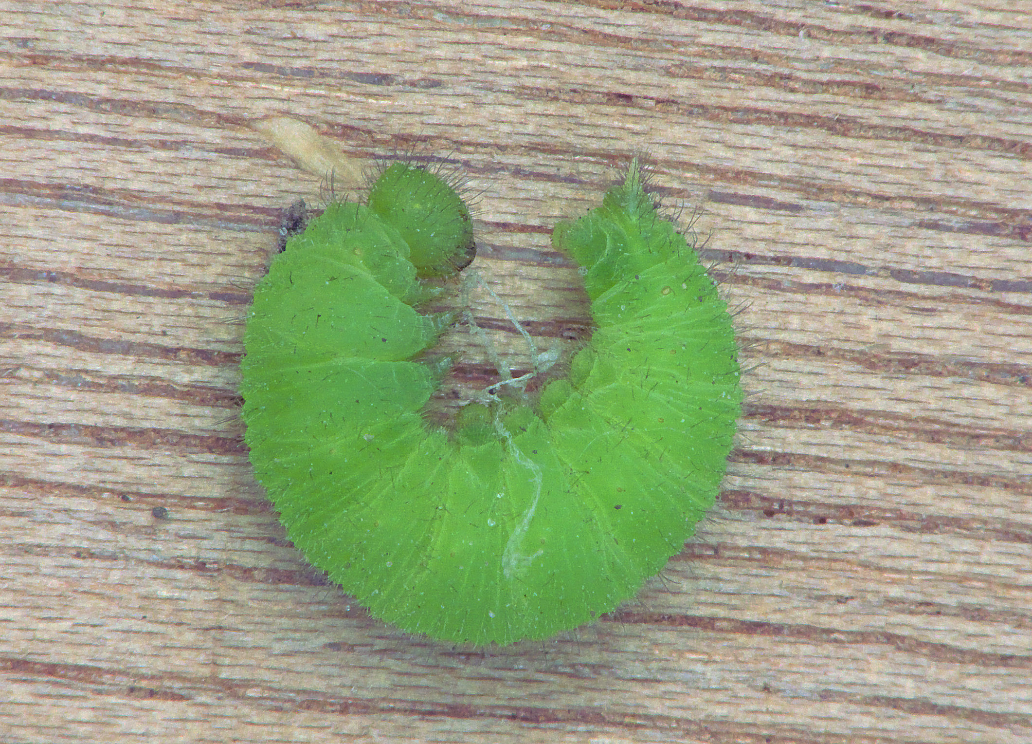 Pararge aegeria caterpillar